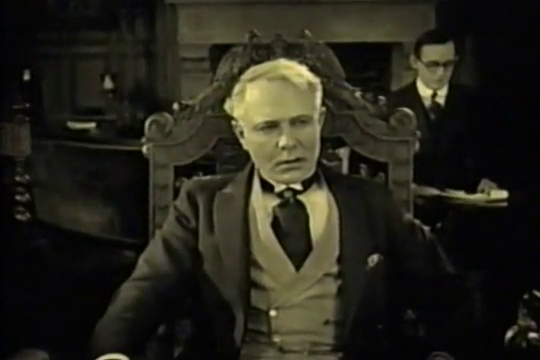 Ralph Lewis in the American comedy film The Hoodlum (1919), a film by Sydney Franklin with Mary Pickford.